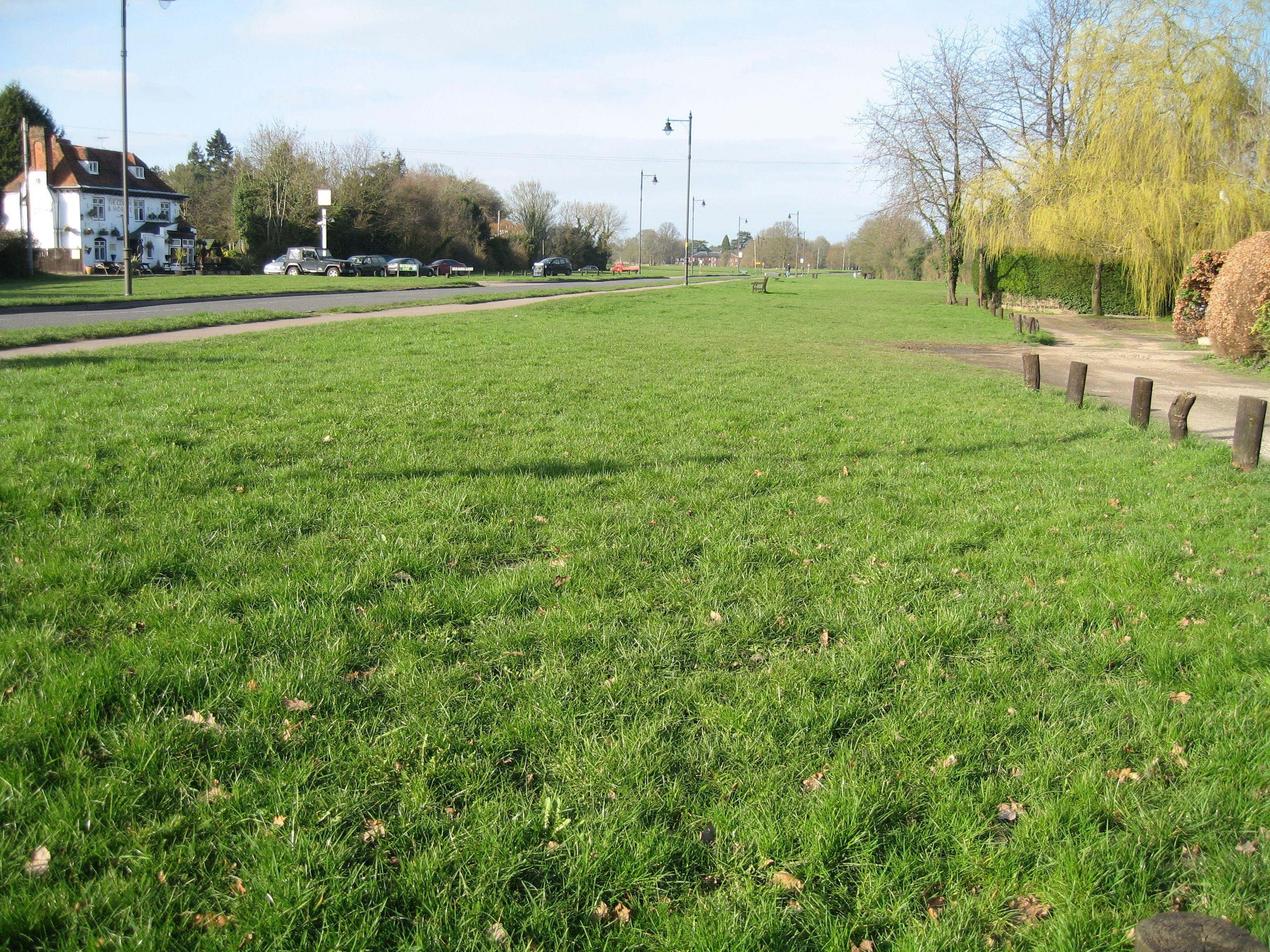 The Green, Croxley Green, Hertfordshire in March 2011